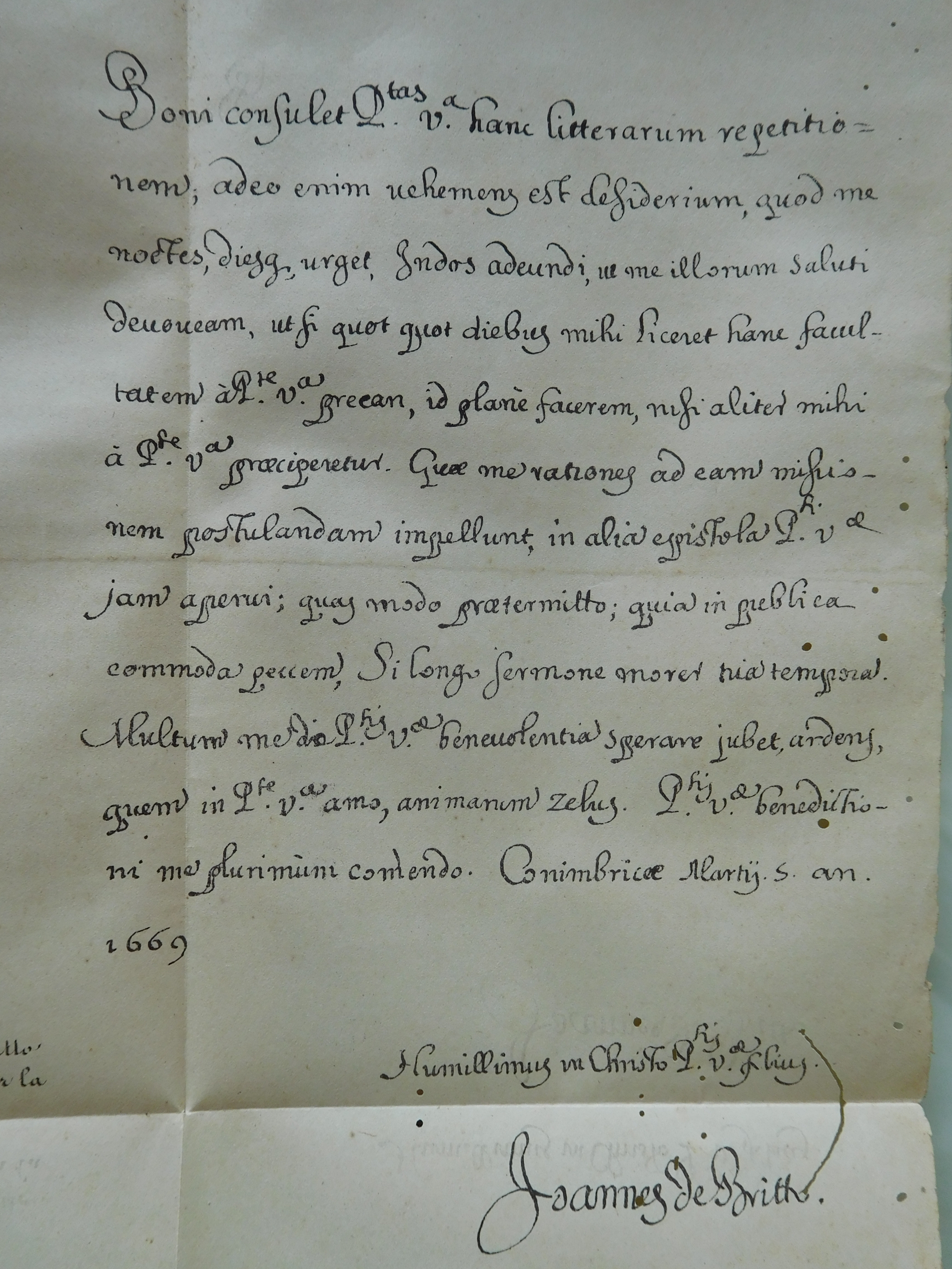 Letter of John de Brito requesting to be sent as missionary to India